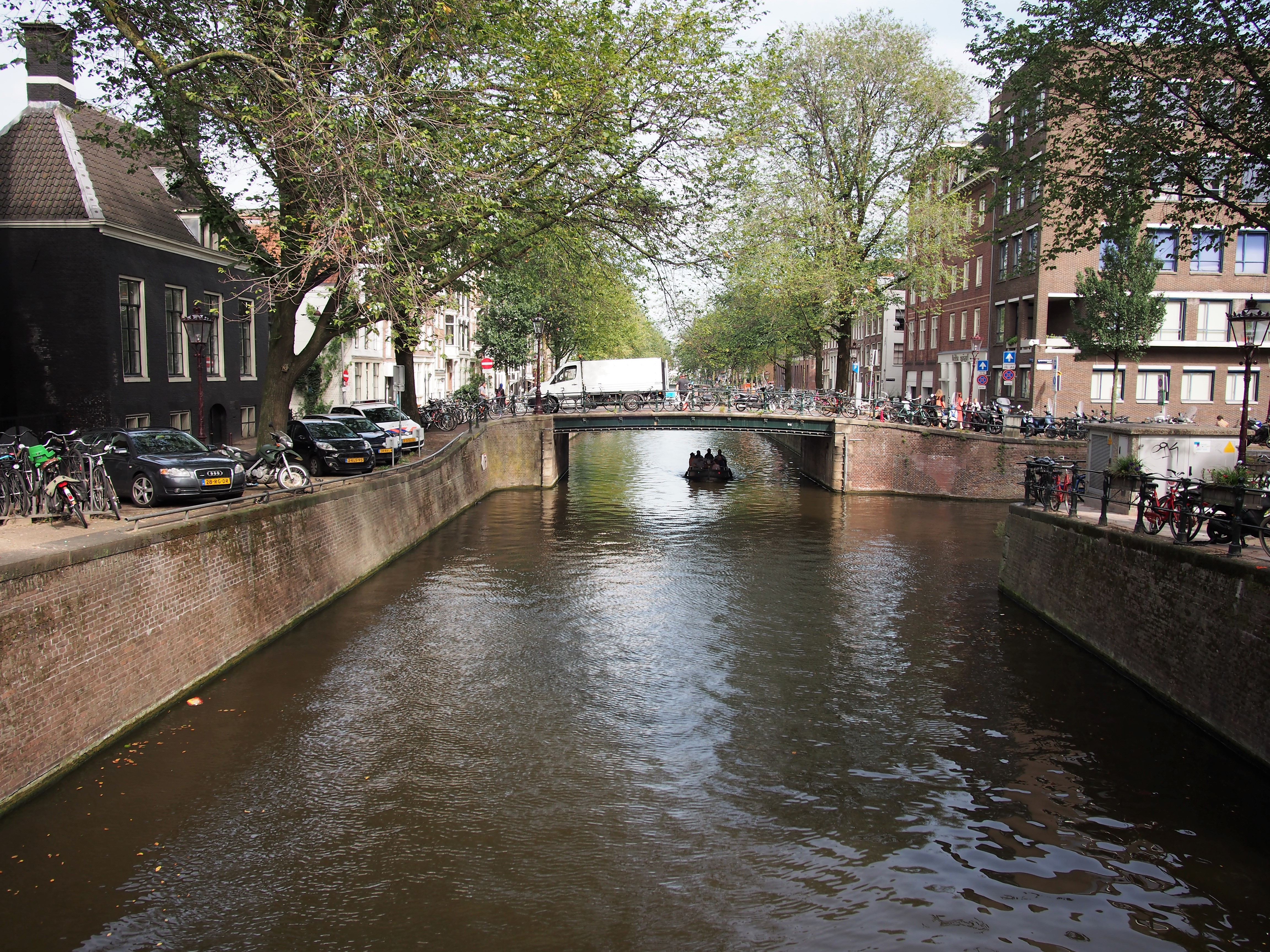 Photographed at Amsterdam, The Netherlands.